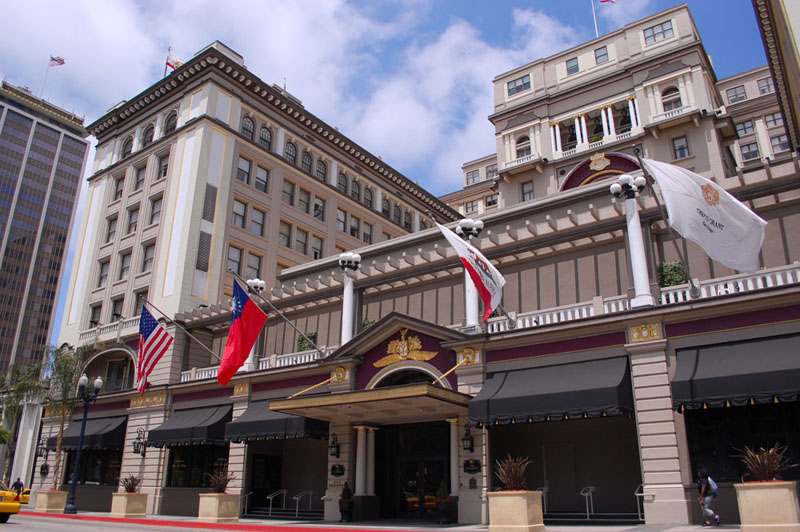 The U.S. Grant Hotel, as viewed from Broadway.